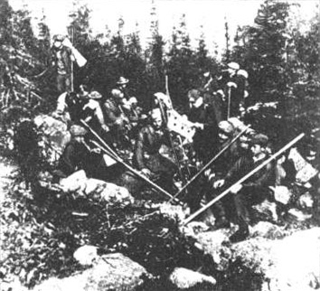 Ukrainian Plastuns on the mountain Chornohora